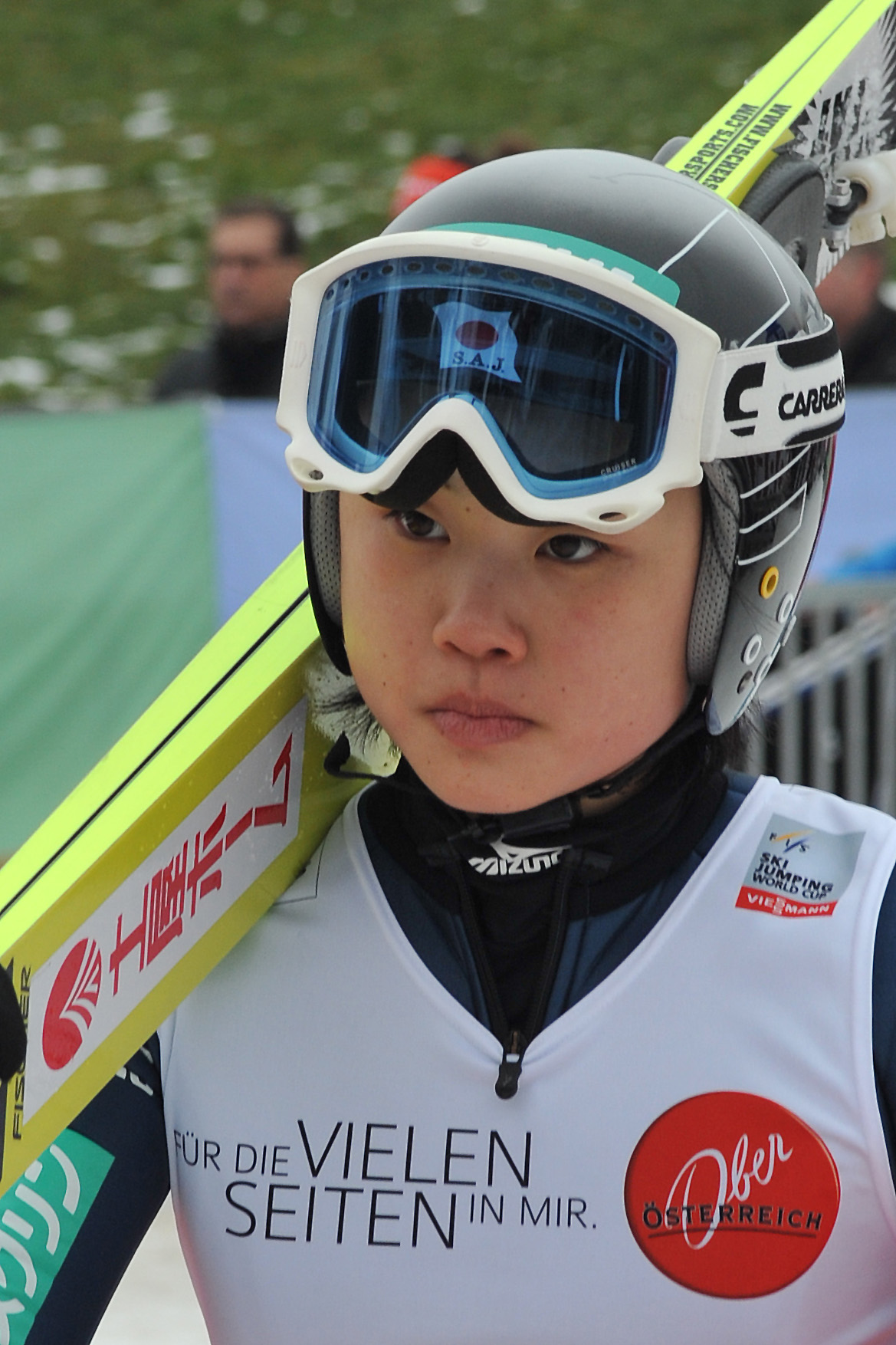 FIS Ski Jumping World Cup Ladies 14th World Cup Competition Normal Hill Individual Hinzenbach (AUT) Sun 2 Feb 2014: Yuki Ito